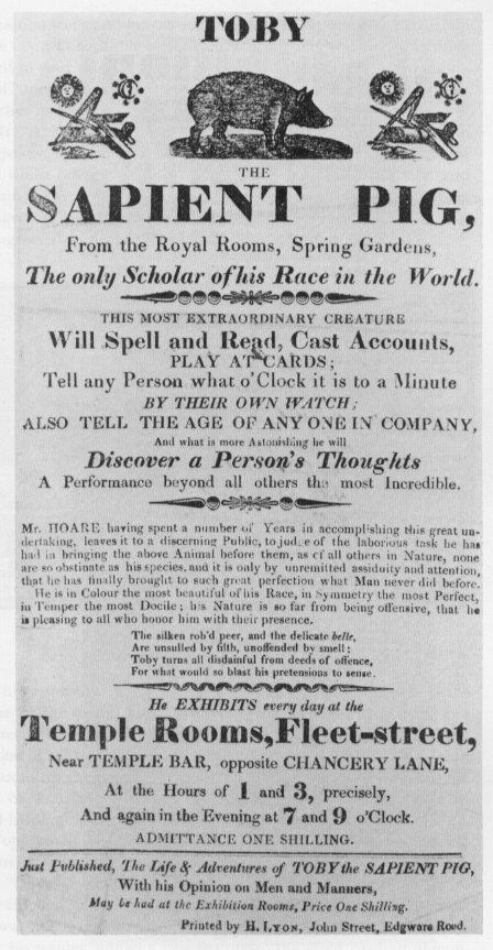 An 1817 poster for the theatrical performer and sideshow attraction Toby the Sapient Pig.